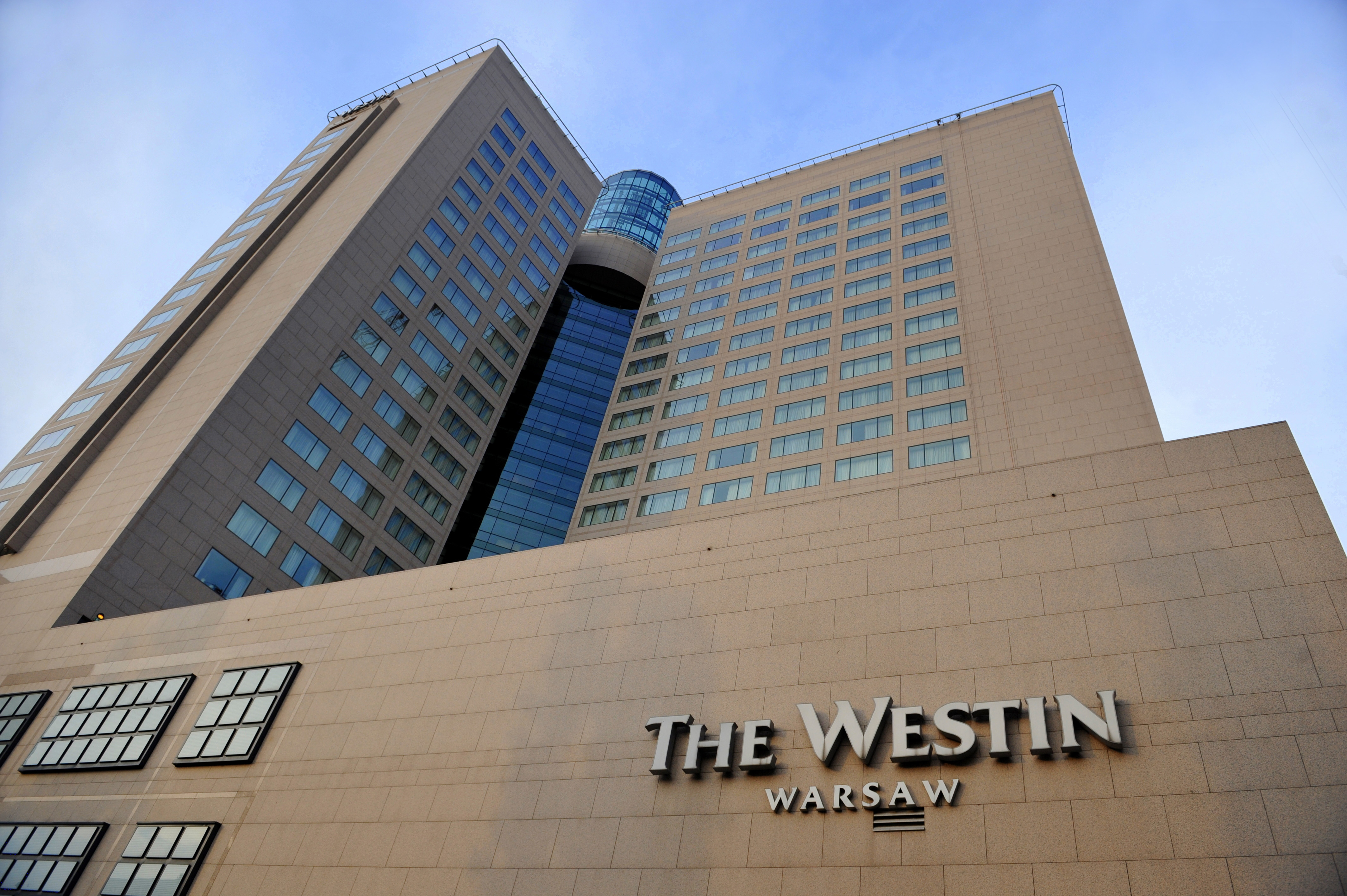 Hotel The Westin Warsaw